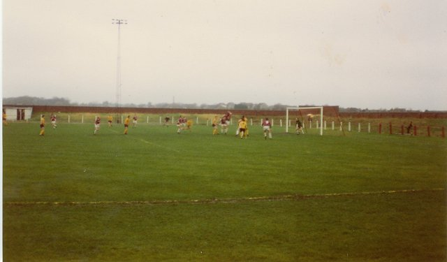 Ochilview The eastern end of the park, very much undeveloped with grass terracing. Taken during a Stenhousemuir - Meadowbank Thistle (now Livingston) match. Meadowbank winning 2-1.